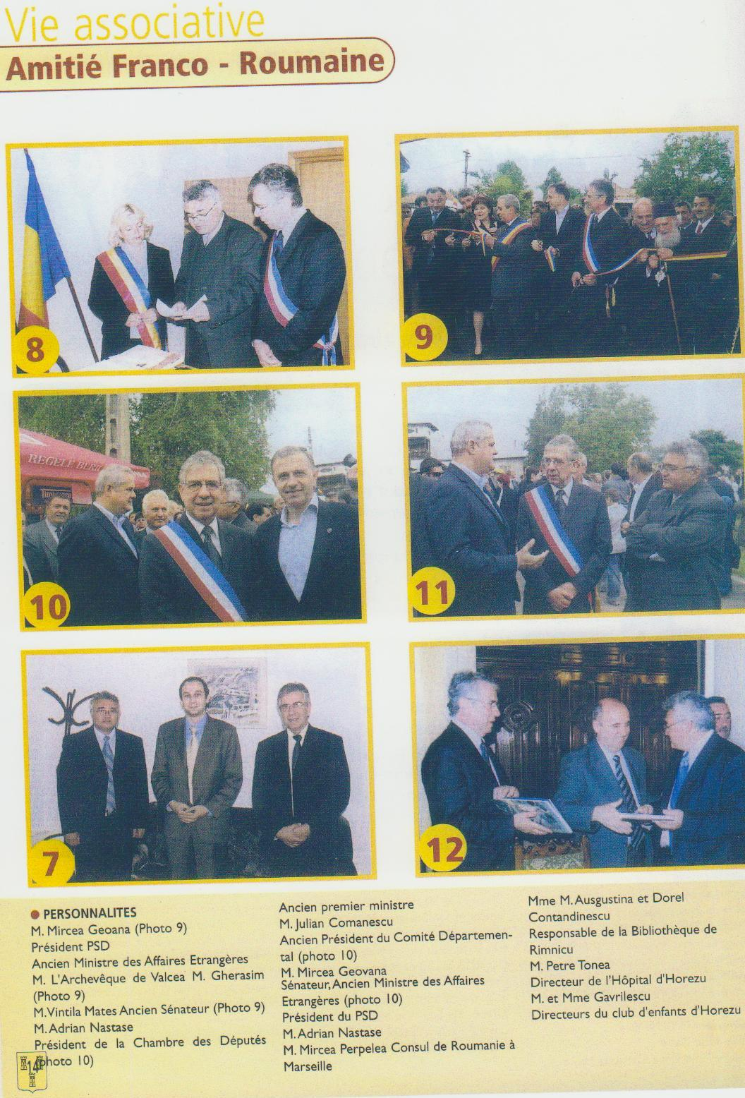 Amitié Franco-Roumaine